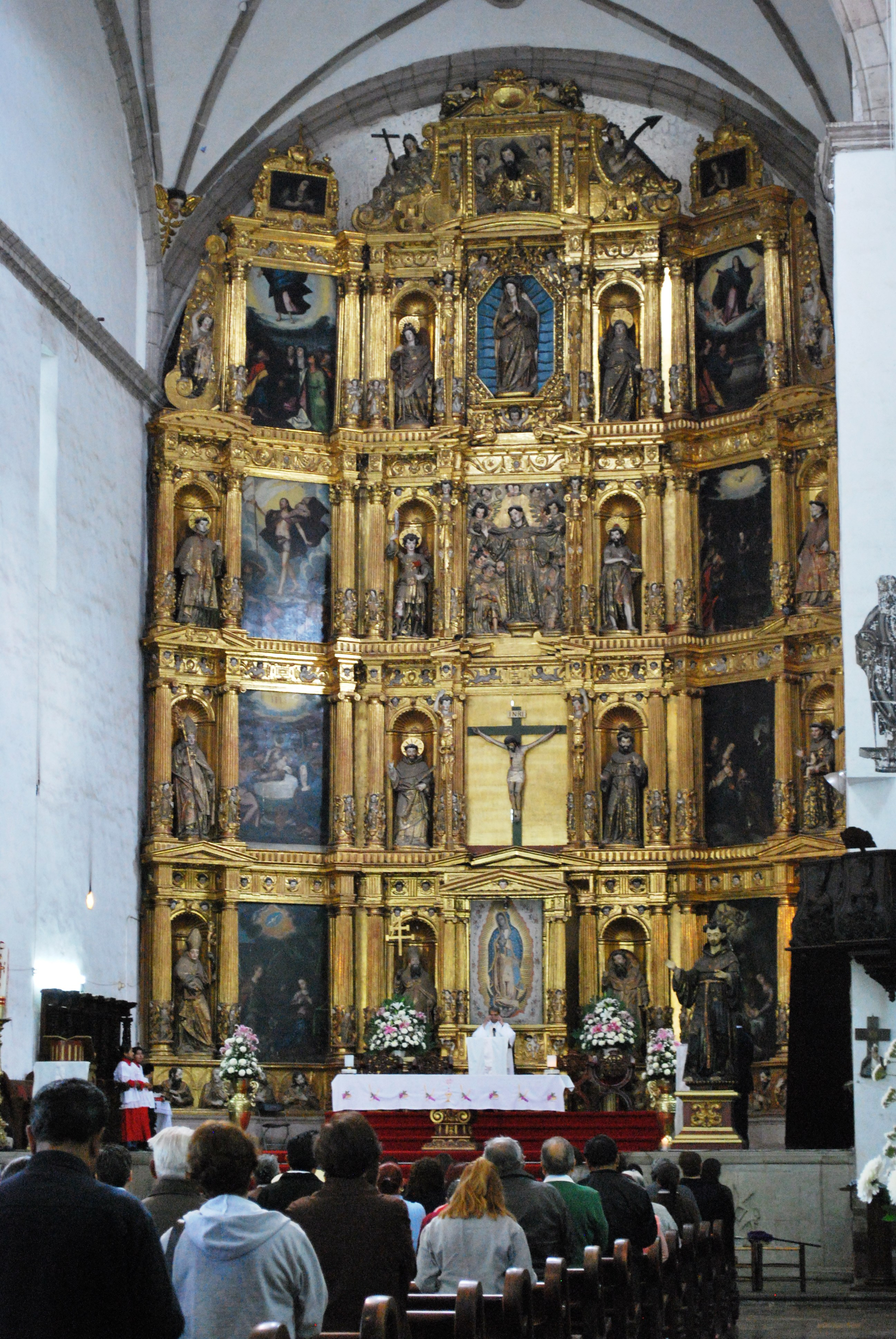 Main altar of the San Bernadino de Siena Church in Xochimilco, Mexico City